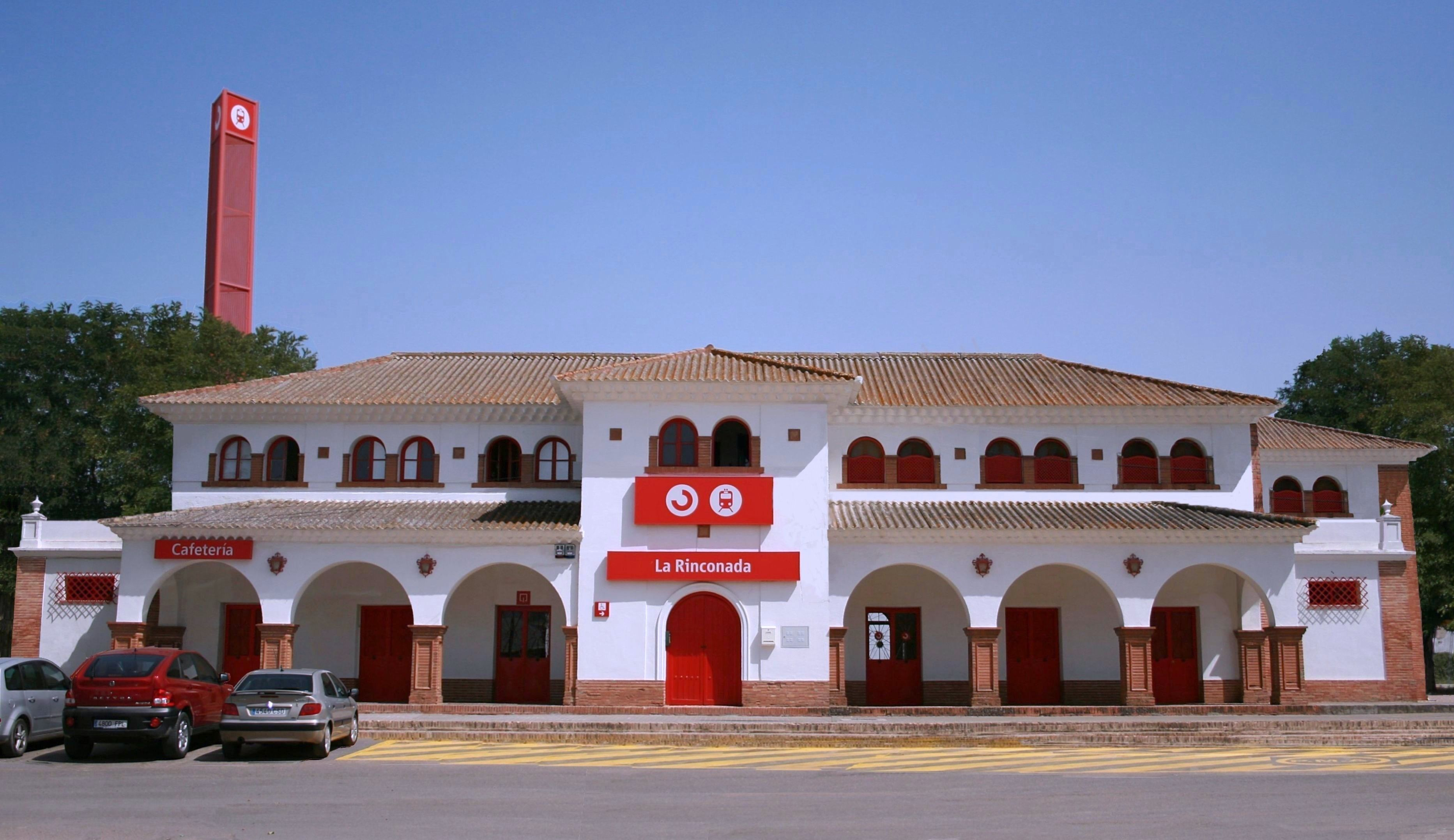 San José de La Rinconada Trains Station